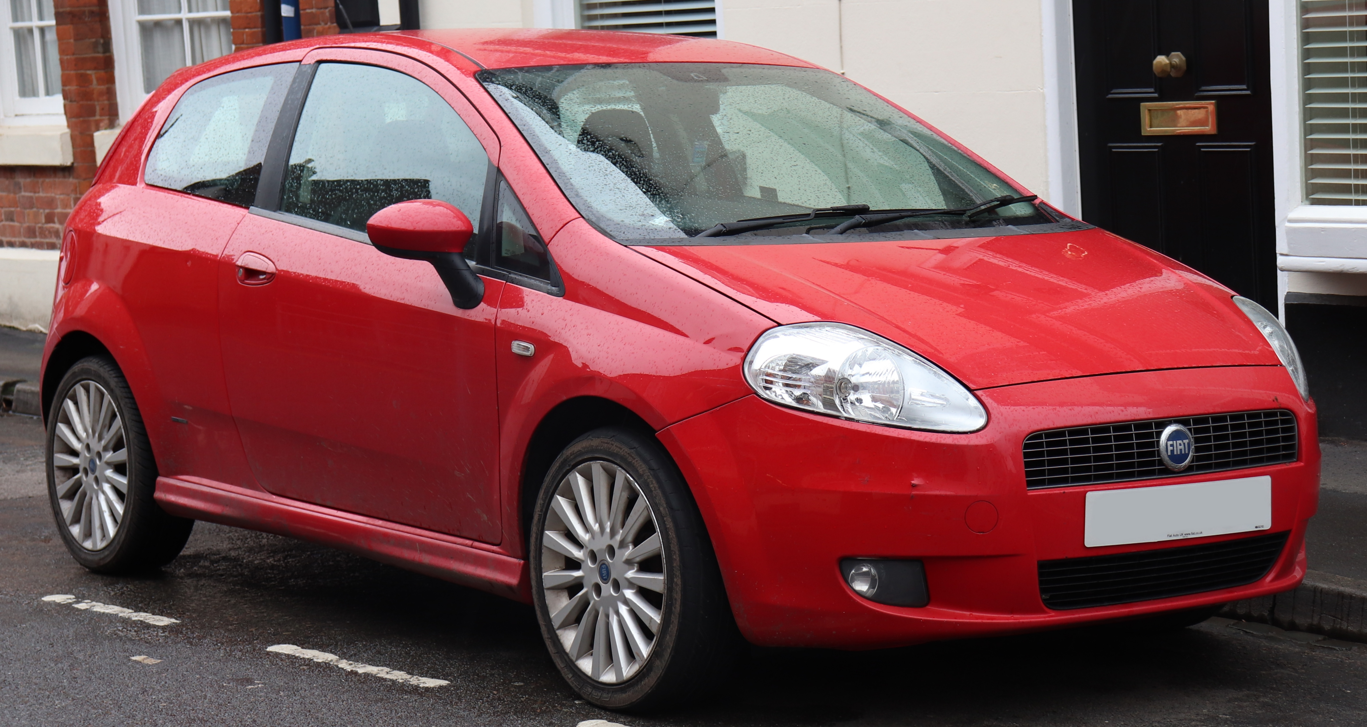 2006 Fiat Grande Punto Sporting T-J 1.4 Front Taken in Warwick